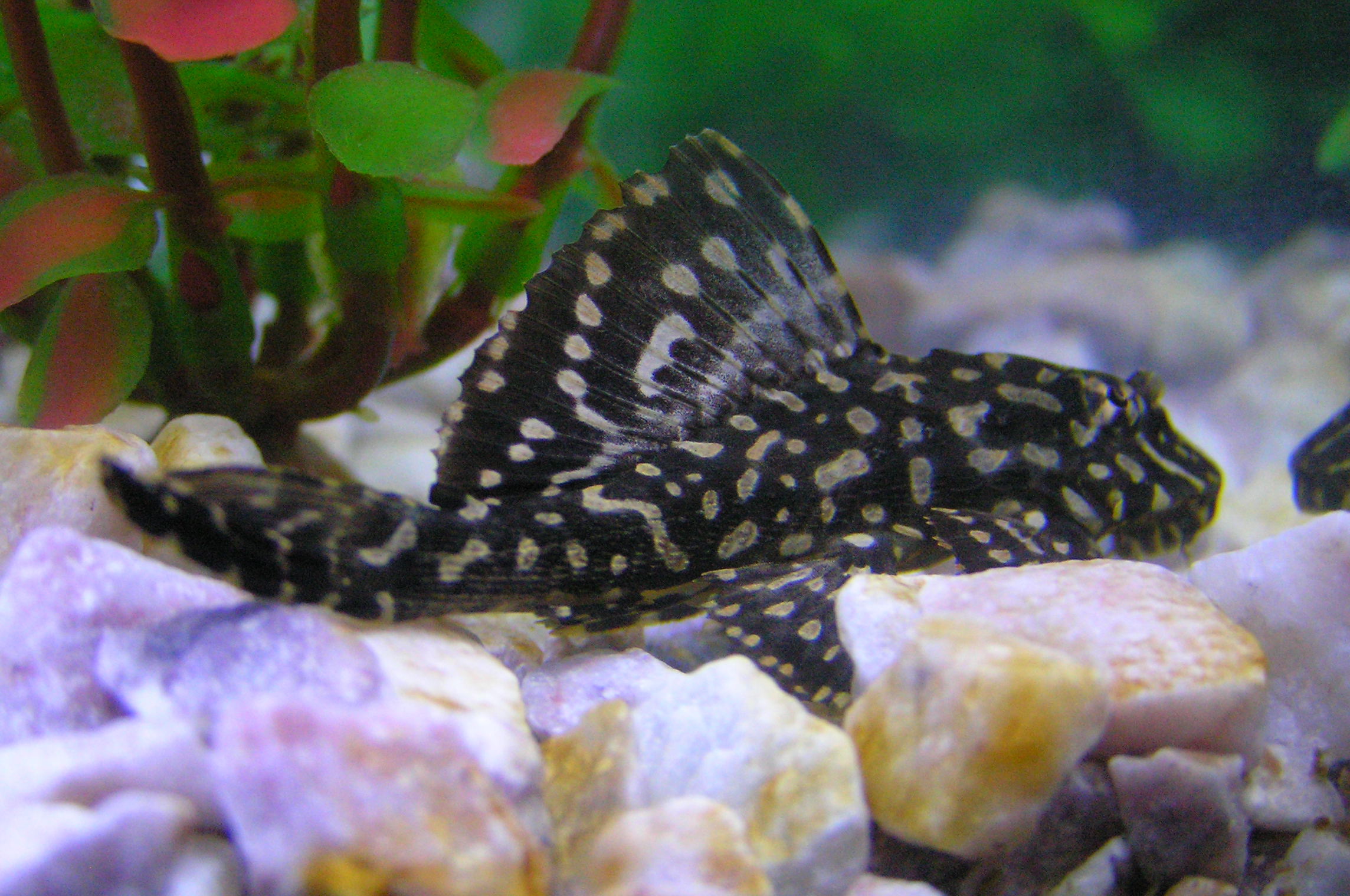 Pterygoplichthys joselimaianus; most commonly known as the "Golden Spot" Pleco